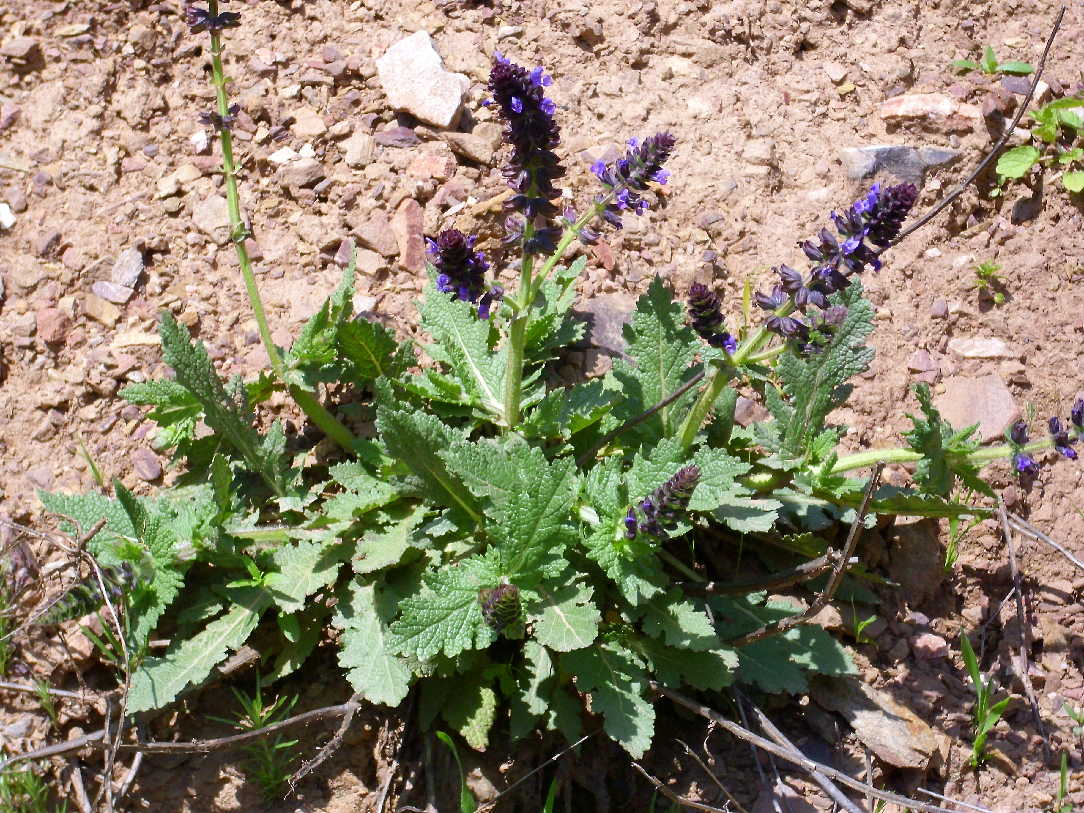 Salvia verbenaca habit, Sierra Madrona, Spain.